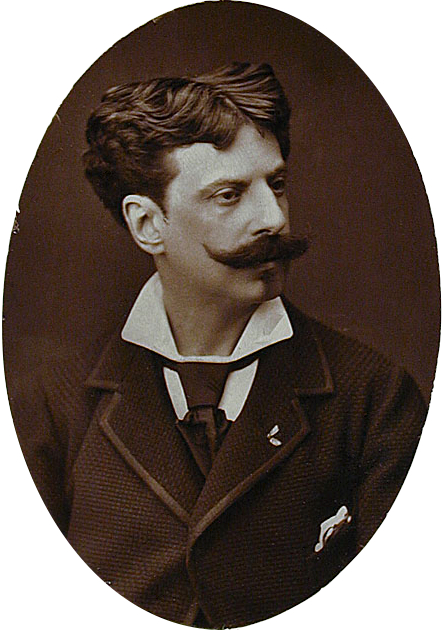 De Neuville, 1876-1884 Photograph, Woodburytype, Oval: Height: 9.5 cm (3.7 in); Width: 6.9 cm (2.7 in) dimensions QS:P2048,9.53U174728;P2049,6.99U174728